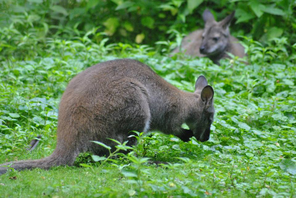 Kängurus im Tierpark Zittau